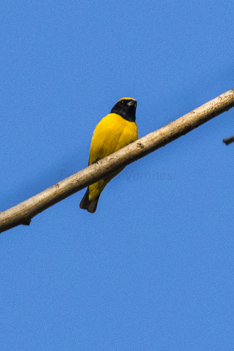 Yellow-crowned Euphonia - Talari Lodge - Costa Rica_MG_7449